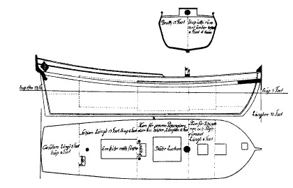 Drawing of the Swedish post schooner Hiorten